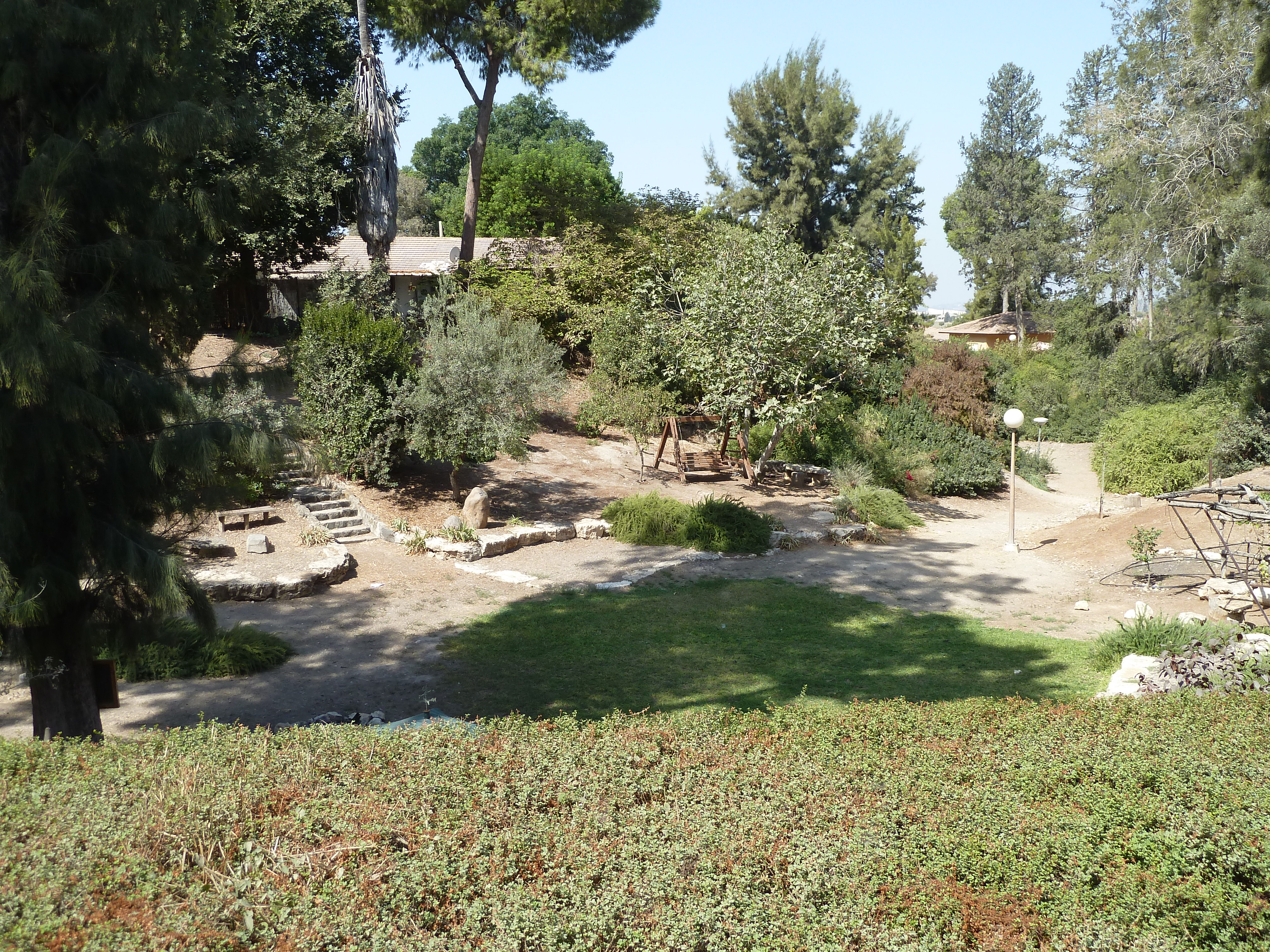 TMerhavia Crusader Moat